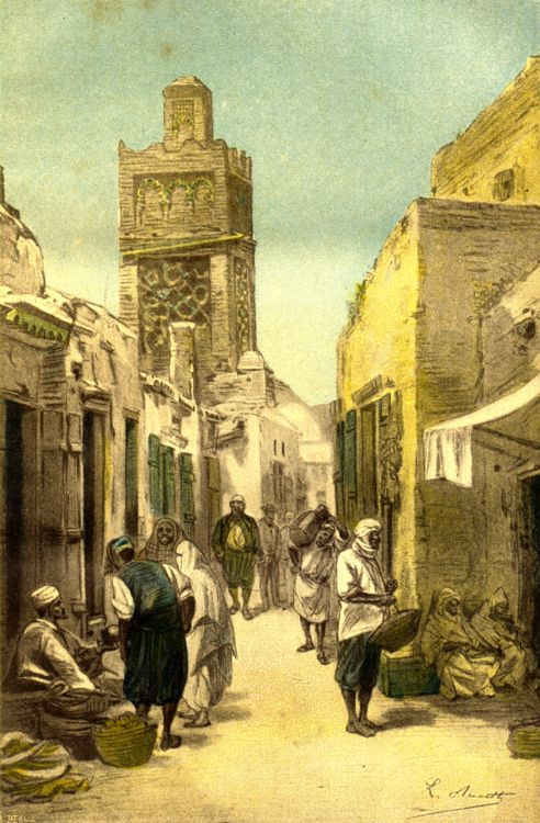 An ilustration from the novel "Clovis Dardentor" by Jules Verne drawn by Léon Benett.